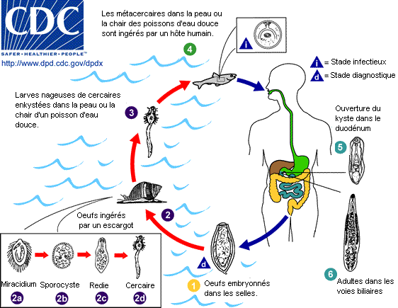 Embryonated eggs are discharged in the biliary ducts and in the stool . Eggs are ingested by a suitable snail intermediate host ; there are more than 100 species of snails that can serve as intermediate hosts. Each egg releases a miracidia , which go through several developmental stages (sporocysts , rediae , and cercariae ). The cercariae are released from the snail and after a short period of free-swimming time in water, they come in contact and penetrate the flesh of freshwater fish, where they encyst as metacercariae . Infection of humans occurs by ingestion of undercooked, salted, pickled, or smoked freshwater fish . After ingestion, the metacercariae excyst in the duodenum and ascend the biliary tract through the ampulla of Vater . Maturation takes approximately 1 month. The adult flukes (measuring 10 to 25 mm by 3 to 5 mm) reside in small and medium sized biliary ducts. In addition to humans, carnivorous animals can serve as reservoir hosts. Ttraduction des légendes en français